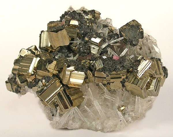 Pyrite, Tetrahedrite, Quartz Locality: Sweet Home Mine (Home Sweet Home Mine), Mount Bross, Alma District, Park County, Colorado, USA (Locality at ) Size: 7.1 x 5.6 x 1.9 cm. Here is a stunning pyrite from the Sweet Home Mine, with mirror-bright, golden striated cubes intergrown with minor tetrahedrite, on a bed of transparent quartz needles. Ex. Gene Meieran Collection.